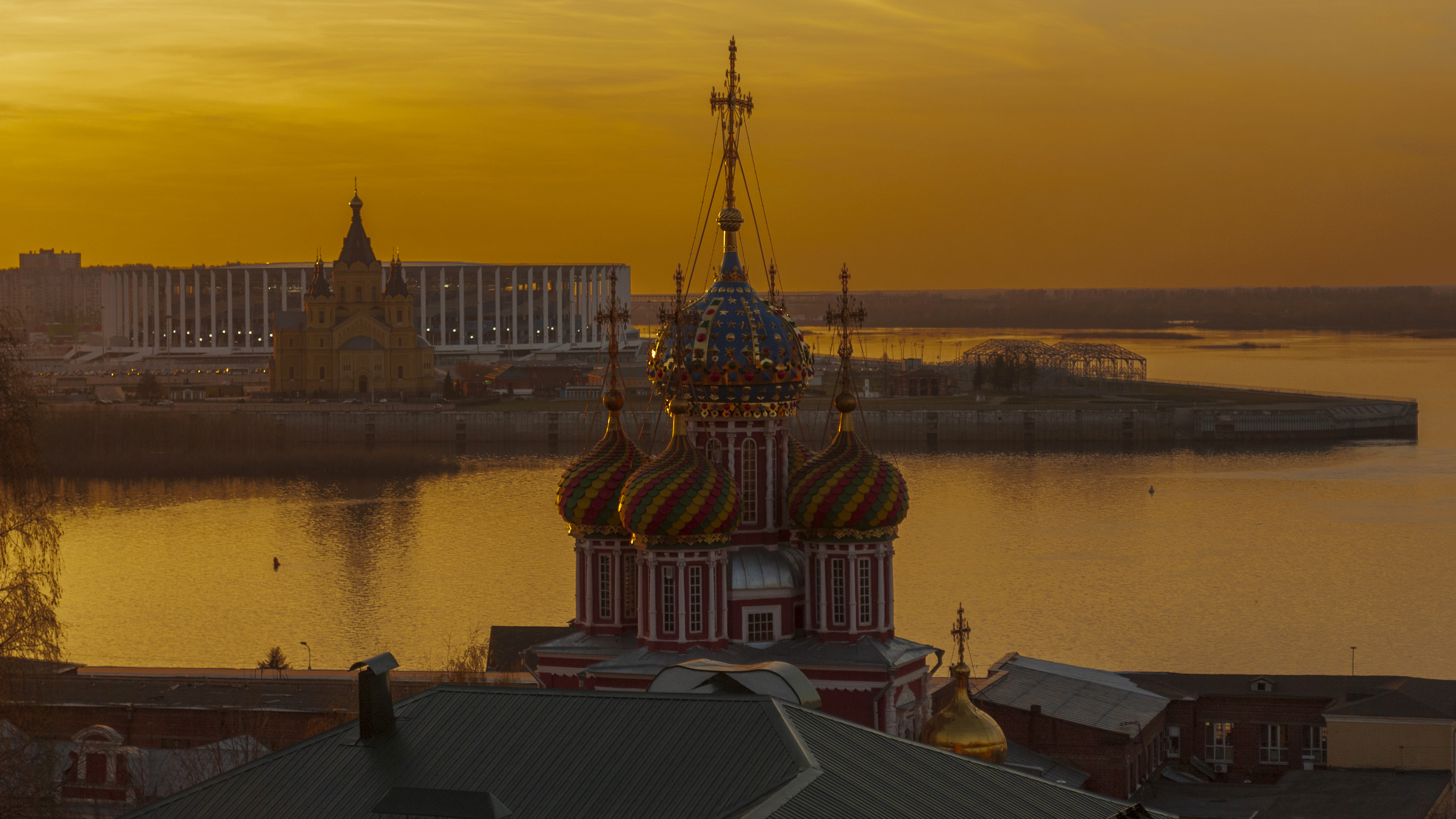 Spit of Nizhny Novgorod and Stroganov Church at sunset